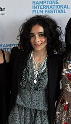 Actress Zrinka Cvitešić at the Chairman's Reception on October 9, 2010 at the home of Stuart Suna in East Hampton, New York. (Photo © Nick Stepowyj)